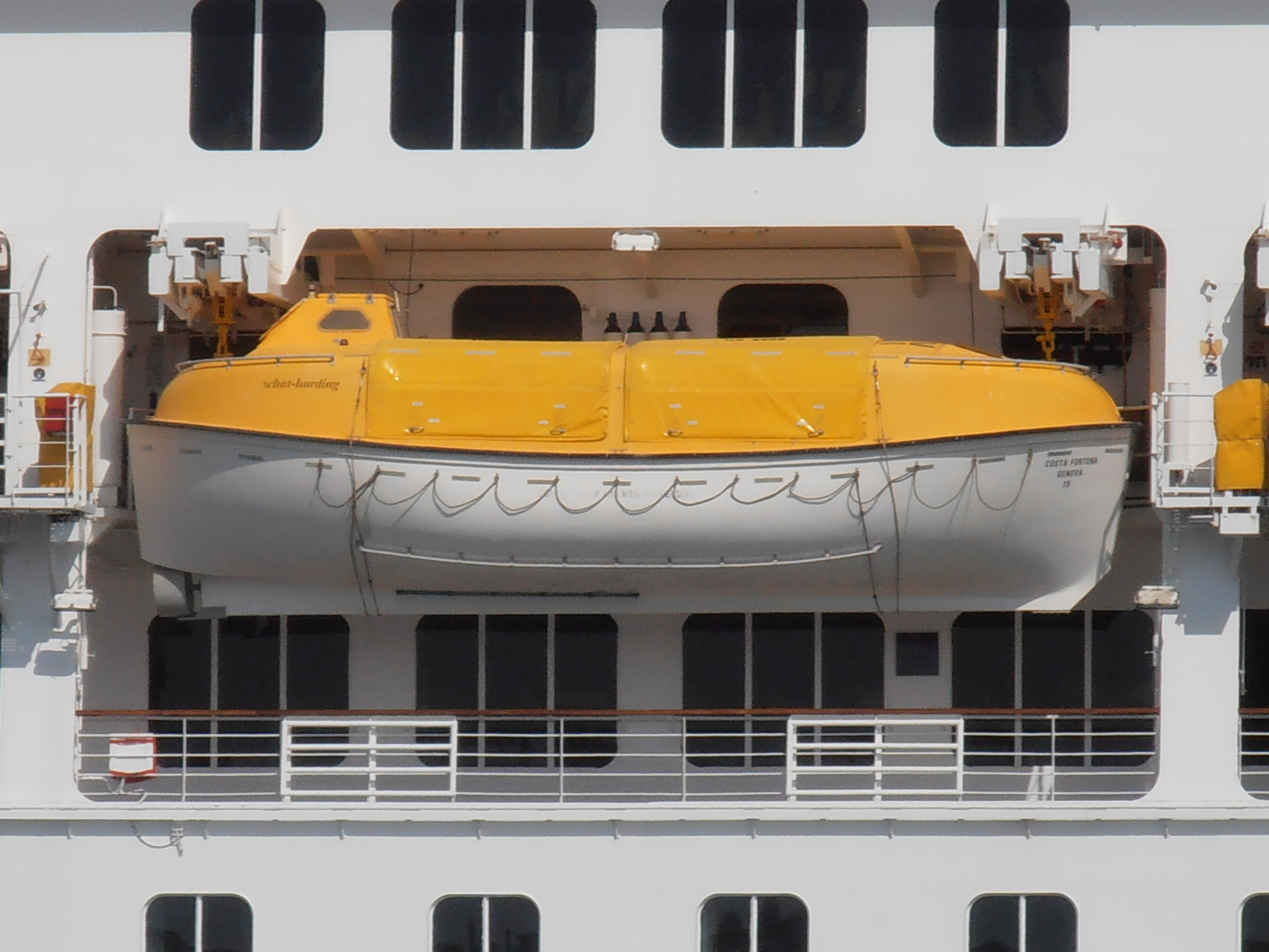 Costa Fortuna lifeboat, Tallinn 4 July 2012